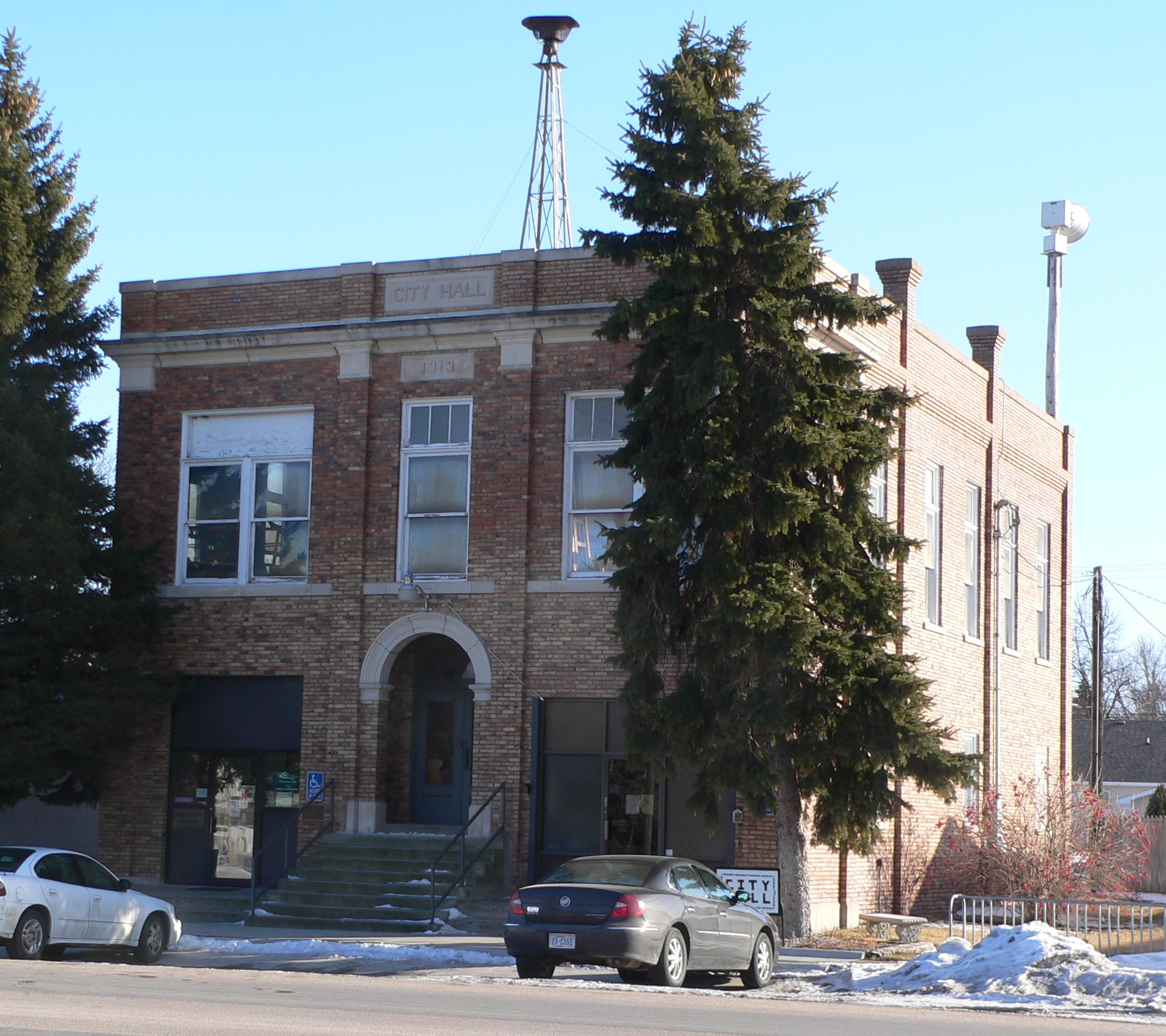 Cedar Rapids City Hall and Library in Cedar Rapids, Nebraska; seen from the northwest. The Renaissance Revival building was constructed in 1913. It is listed in the National Register of Historic Places.